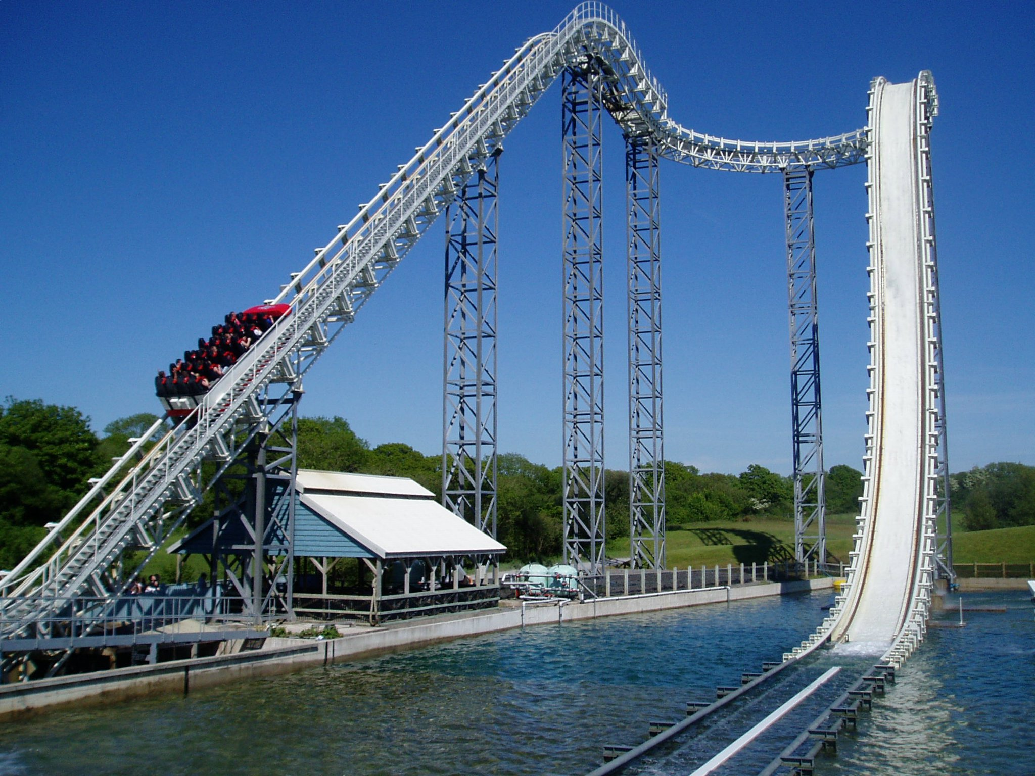 Hydro at Oakwood Theme Park